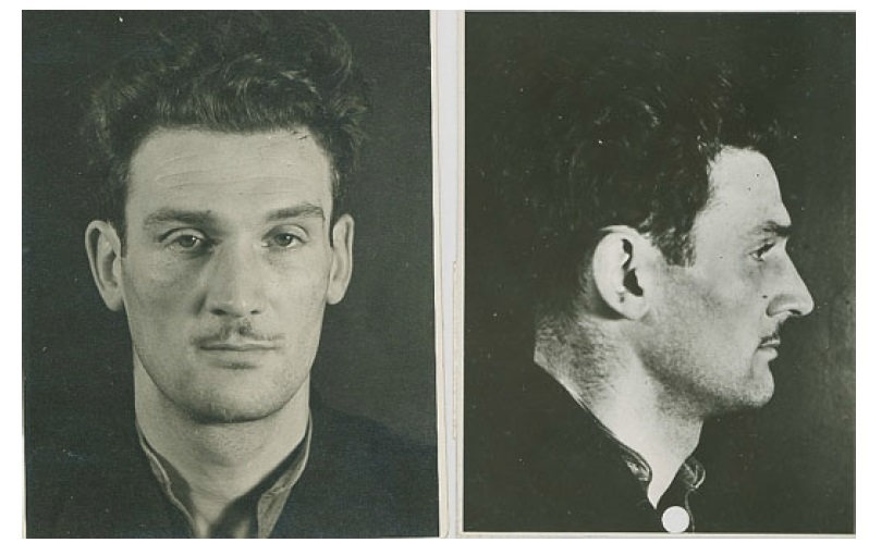 Edward Arnold (Eddie) Chapman (1914-1997) Gangster, double agent. German Iron Cross holder. Photographed by MI5 after being parachuted back to England, 1942.